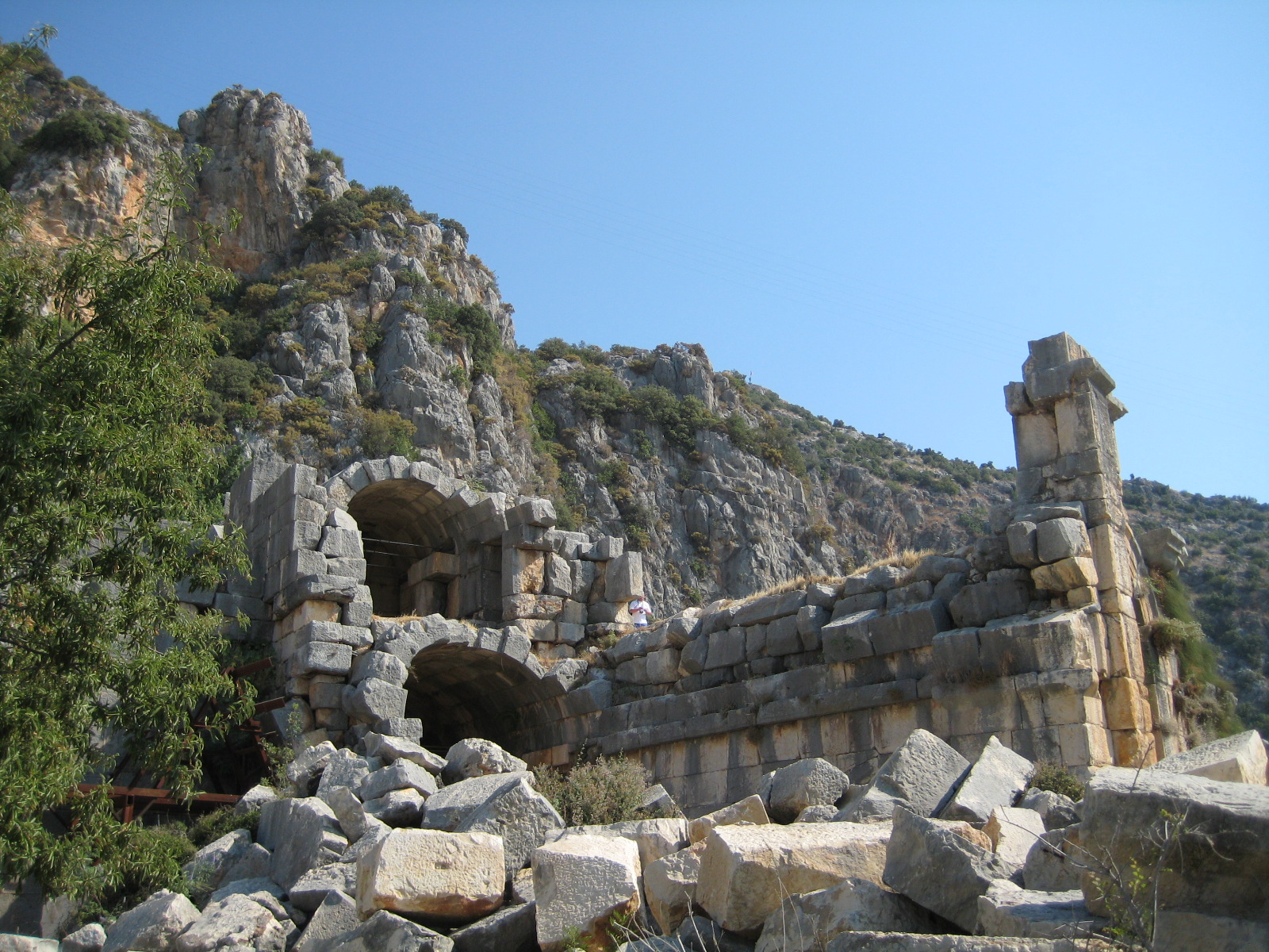 Amphithéâtre Entry